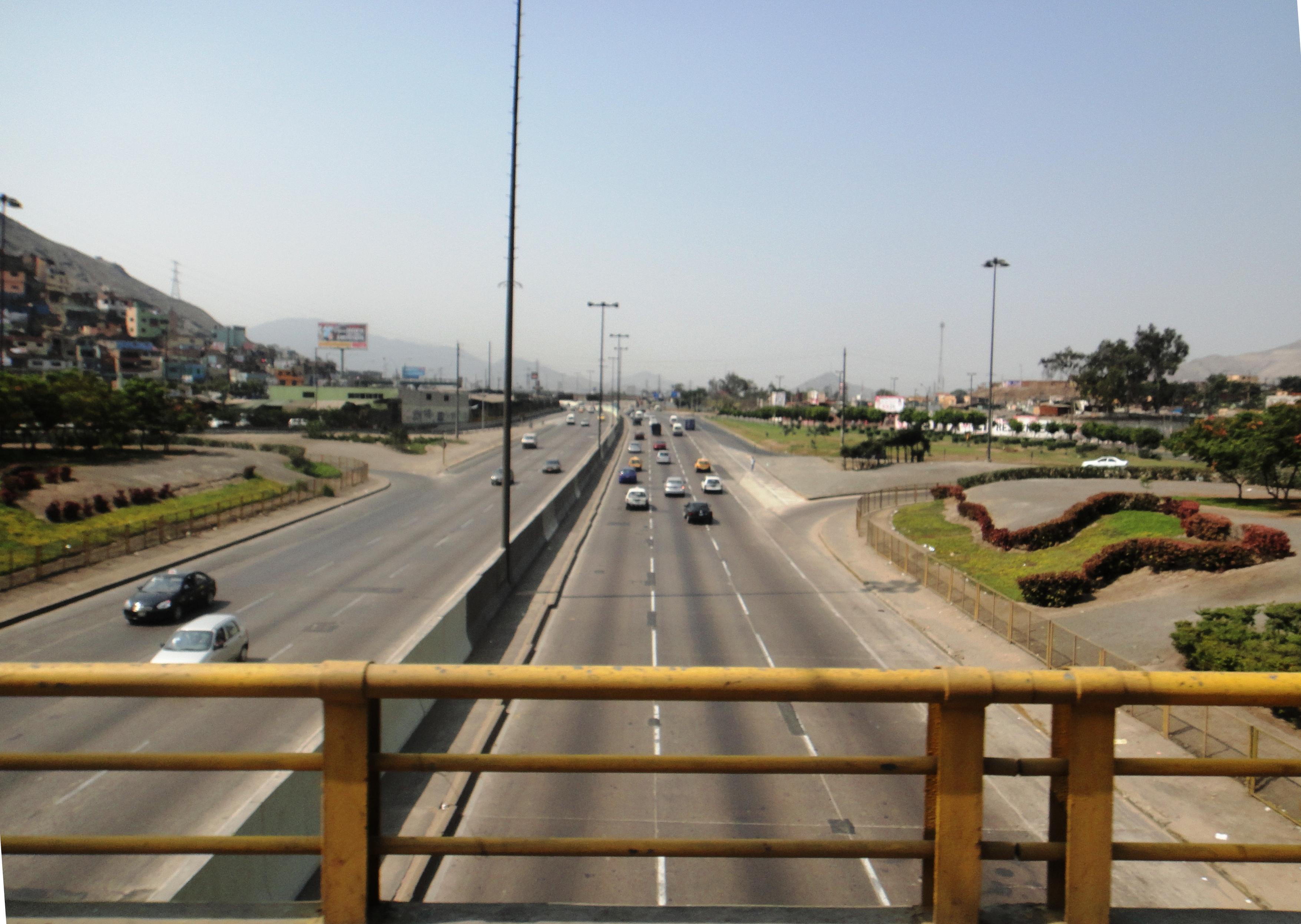 Part of Pan-American Highway called "Vía de evitamiento" in Lima-Peru.